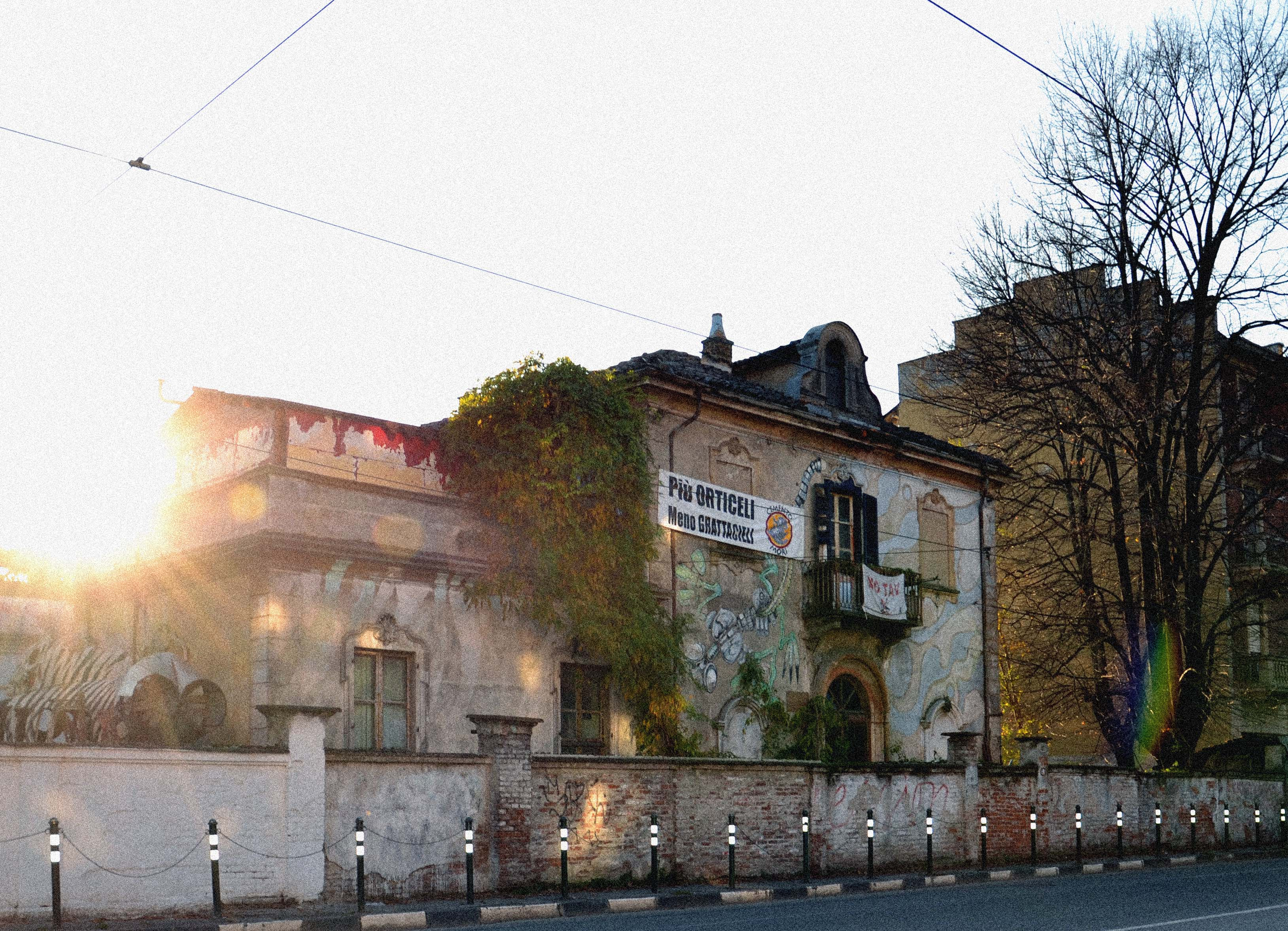 View of the squat El Paso Occupato, Turin (Italy)